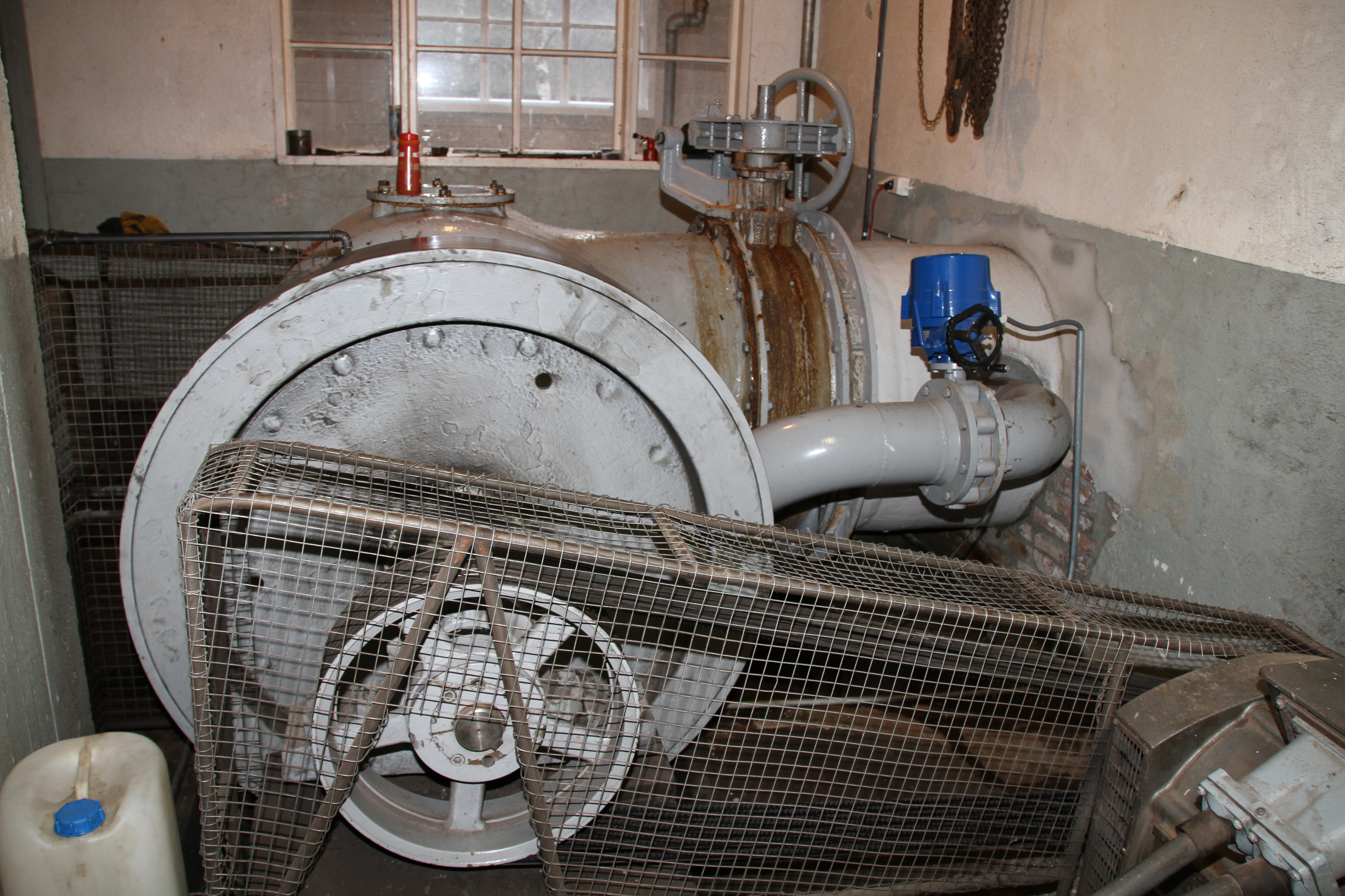 The hydropower installation of Sjøllingstad Wood Textile Factory, Mandal, Norway. The 1913 Thume turbine was installed to utilize an 11 metres fall in the local river.